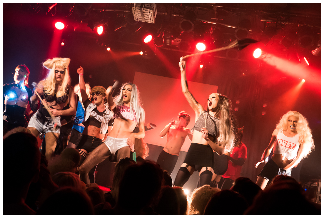 Lady Gaga Travesty at SO36 club in Berlin 2016